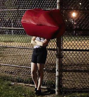 Stephanie Brown of the band Lips.